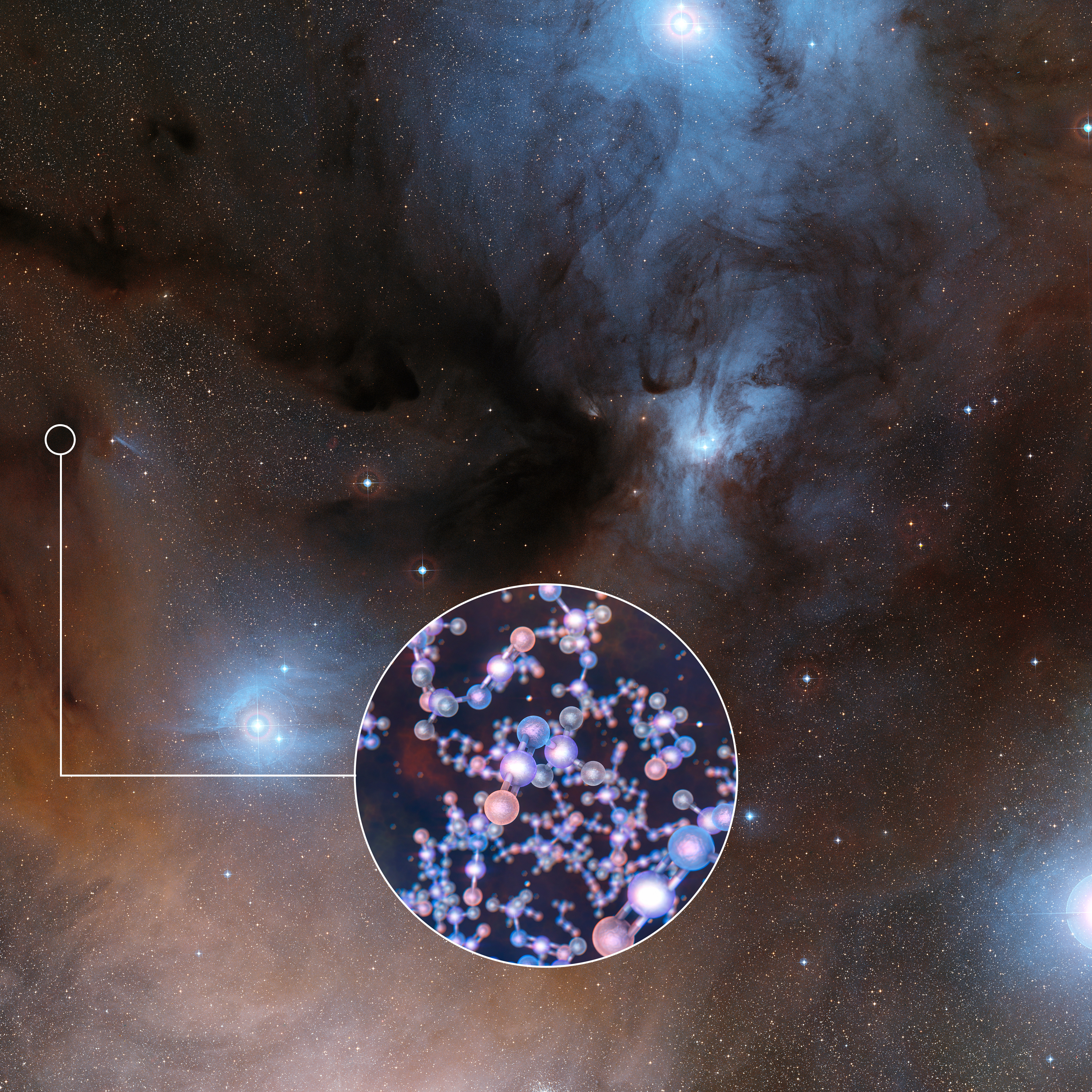 ALMA has observed stars like the Sun at a very early stage in their formation and found traces of methyl isocyanate — a chemical building block of life. This is the first ever detection of this prebiotic molecule towards a solar-type protostar, the sort from which our Solar System evolved. The discovery could help astronomers understand how life arose on Earth. This image shows the spectacular region of star formation where methyl isocyanate was found. The insert shows the molecular structure of this chemical.